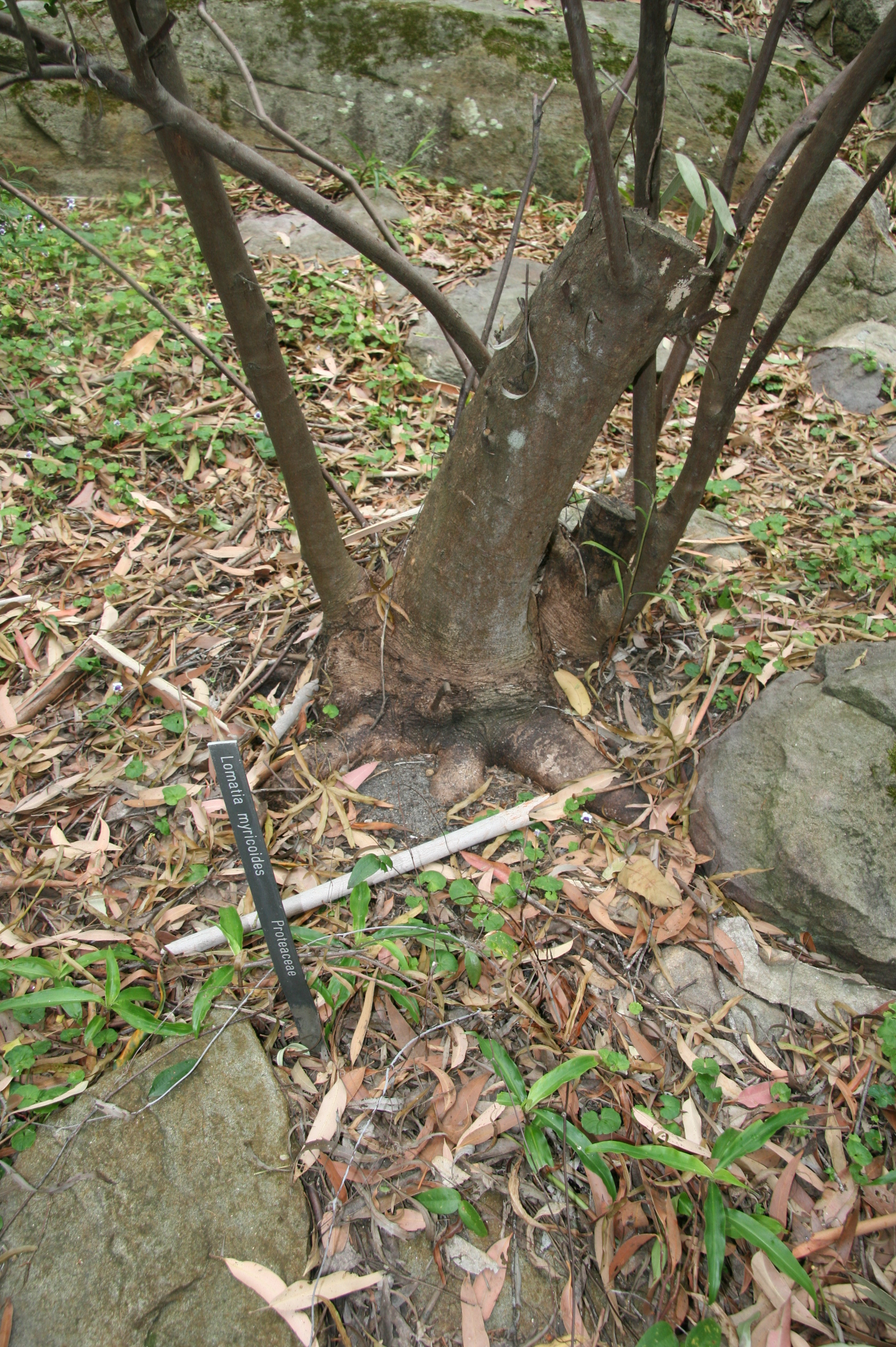 Lomatia myricoides, Joseph Banks Nature Reserve